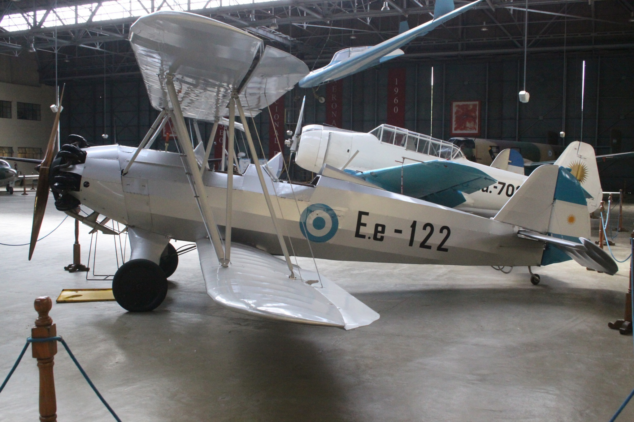 At Moron Museo Nactional De Aeronautica